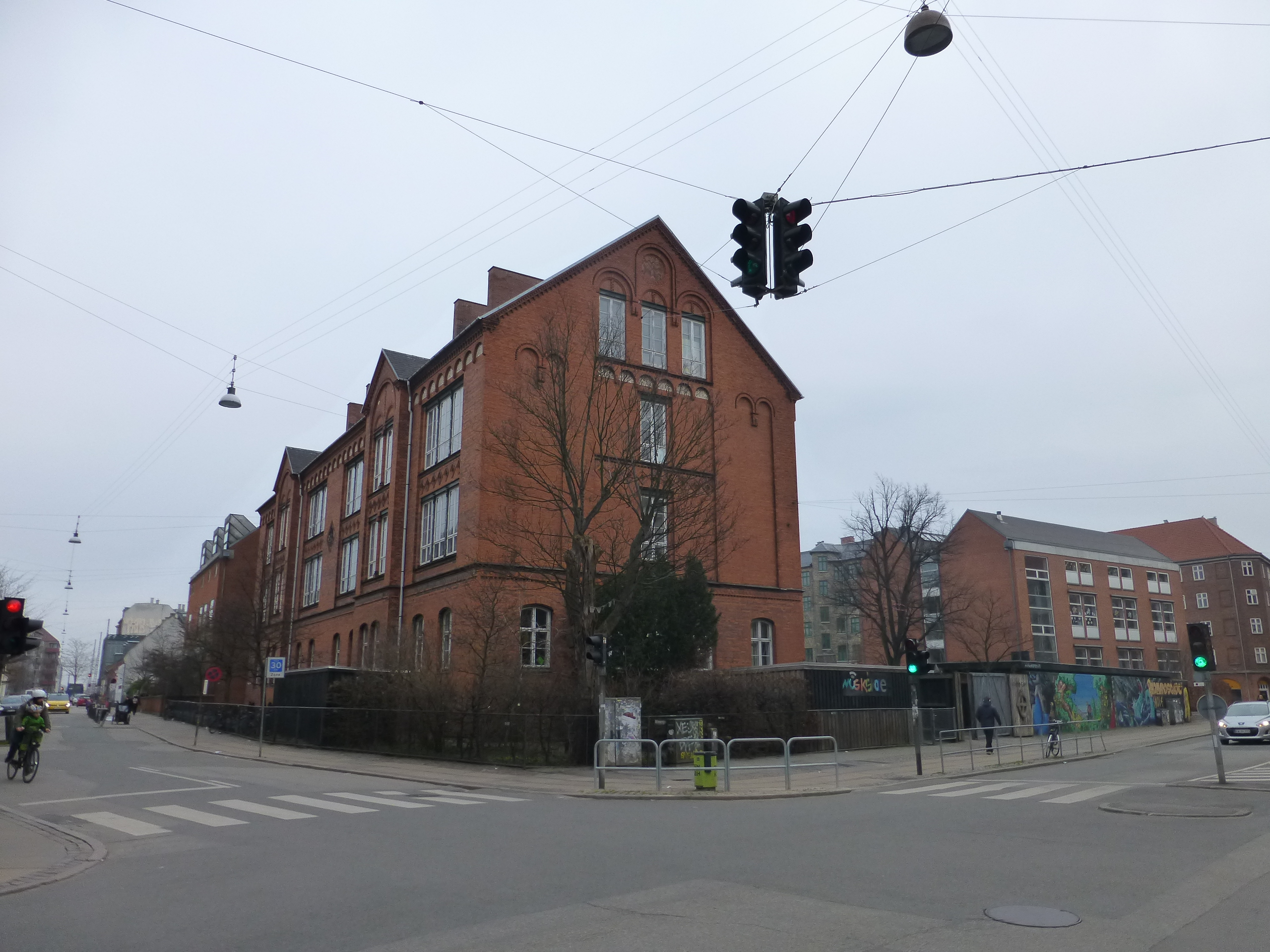 The school Rådmandsgade Skole in Copenhagen.